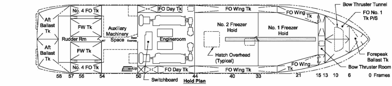 Plan view of FV Alaska Ranger hold. (FO: fuel oil; FW: freshwater; MSD: marine sanitation device; P/S: port and starboard; Tk: tank; WT: watertight)